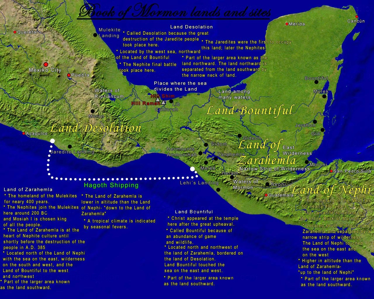 This file shows the geography of the lands and sites in Mesoamerica, where the events of the Book of Mormon may have happened.